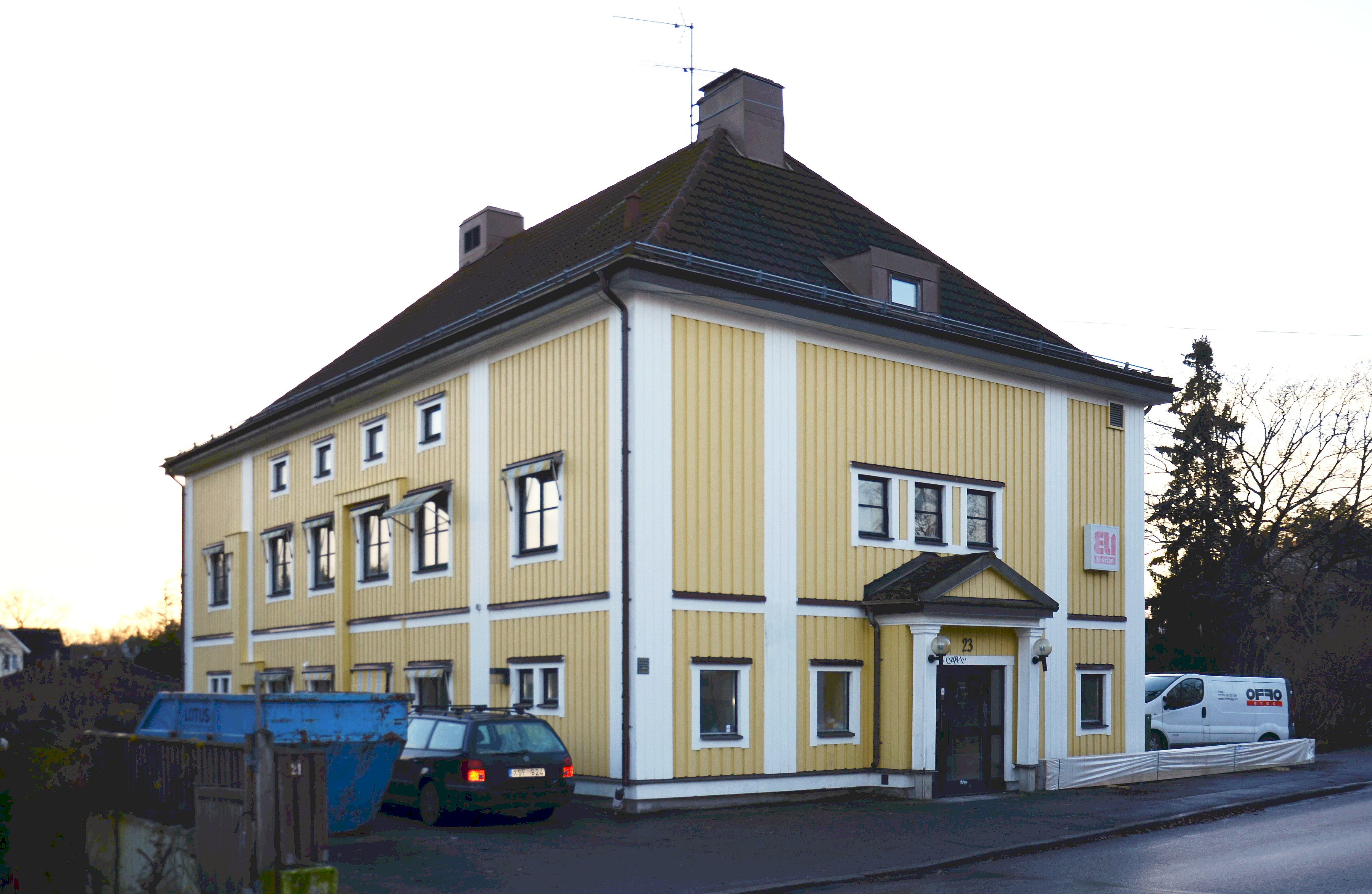 Tidigare Mälarbio, Mälarhöjdsvägen i Mälarhöjden i Stockholm